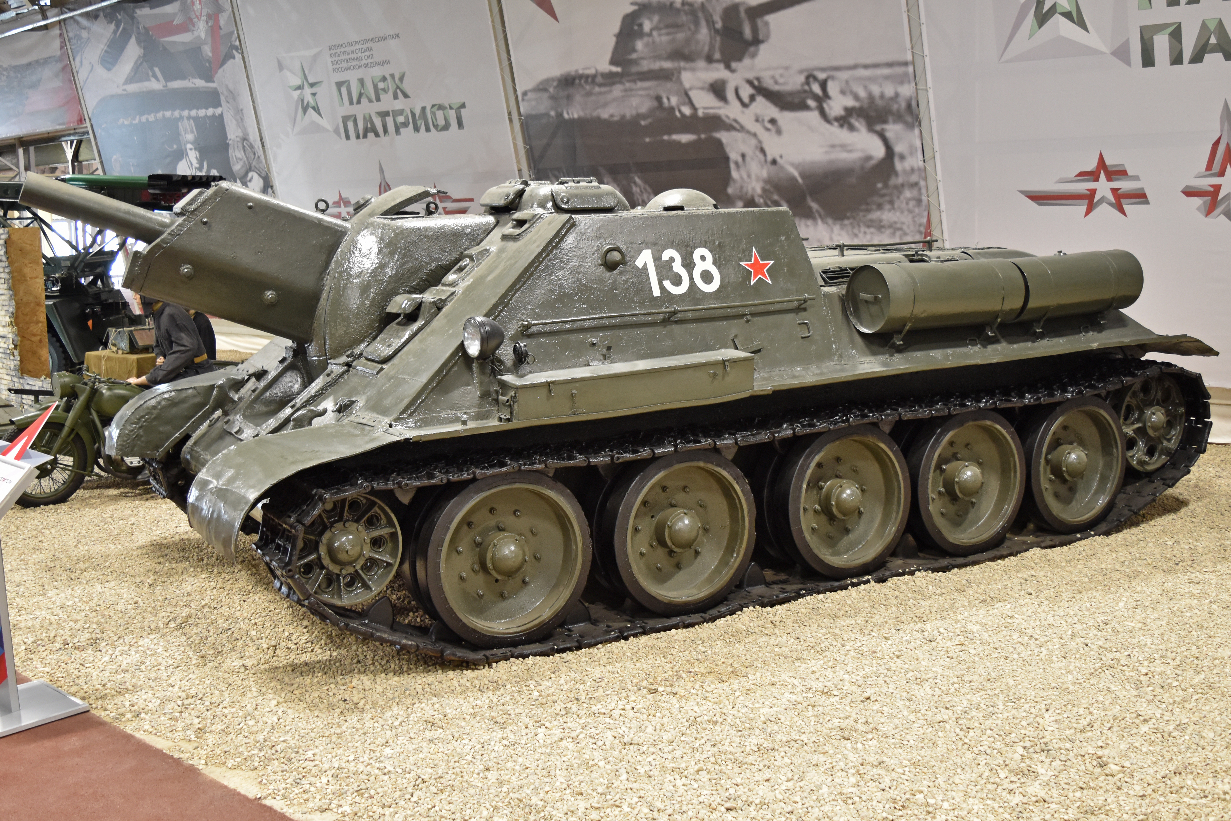 Soviet WW2 era Assault Gun Designer:- F.F.Petrov Manufacturer:- UZTM Built:- December 1942 to Summer 1944 Total Production:- 1,190 Main Armament:- 122mm M-30S Howitzer The SU-122 used the chassis from the successful T-34 Medium tank, combined with the 122mm M-30S Howitzer. The M-30 was not particularly accurate and they were mainly used for direct fire on larger targets or areas, although a direct hit could reportedly blow the turret off a Tiger I. This is believed to be the only surviving example and is on display in Hall 10 of the Patriot Museum Complex. Park Patriot, Kubinka, Moscow Oblast, Russia. 25th August 2017